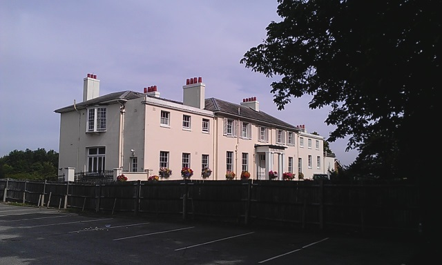 Loring Hall, the mansion in which Robert Stewart resided, along the North Cray Road in the London Borough of Bexley.